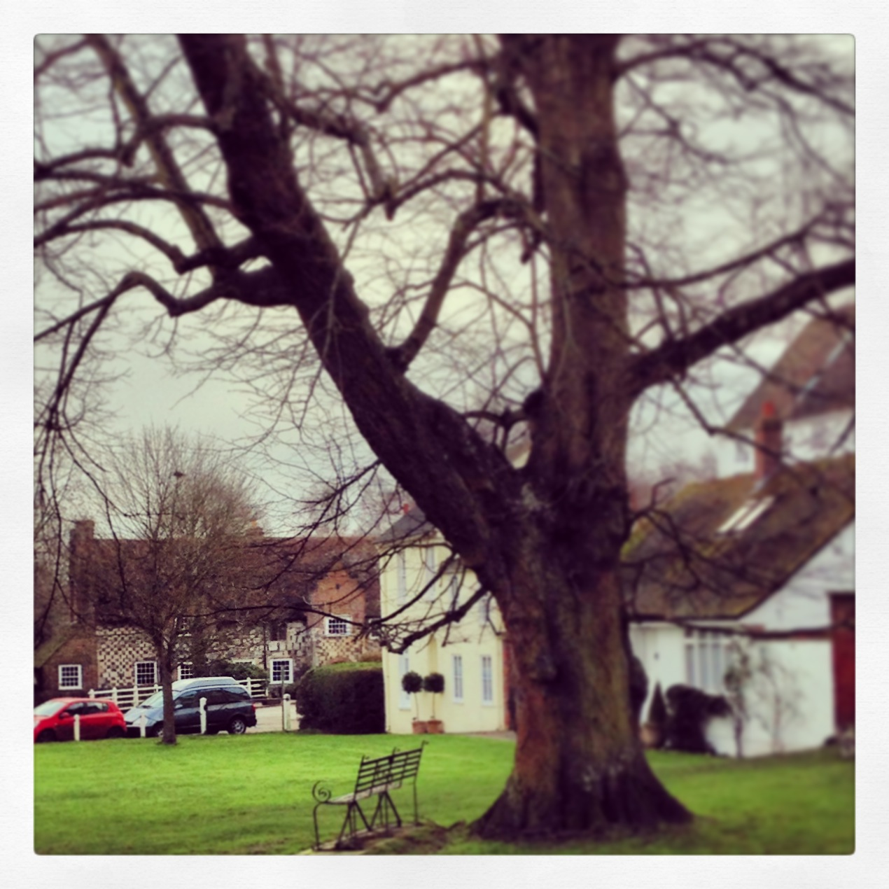 The Old Stone House, Wickhambreaux - Northerly Aspect